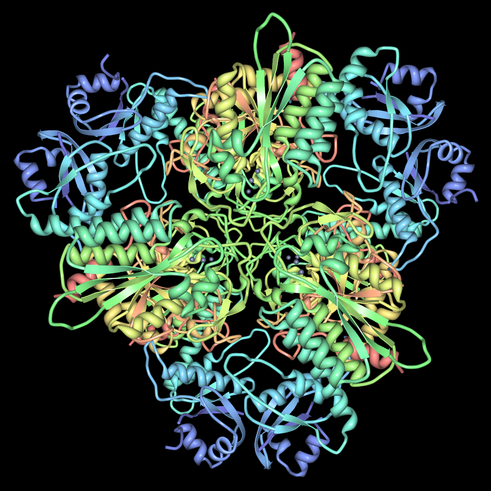 Molecular structure of leucine aminopeptidase at 2.7-A resolution. Burley, S.K., David, P.R., Taylor, A., Lipscomb, W.N